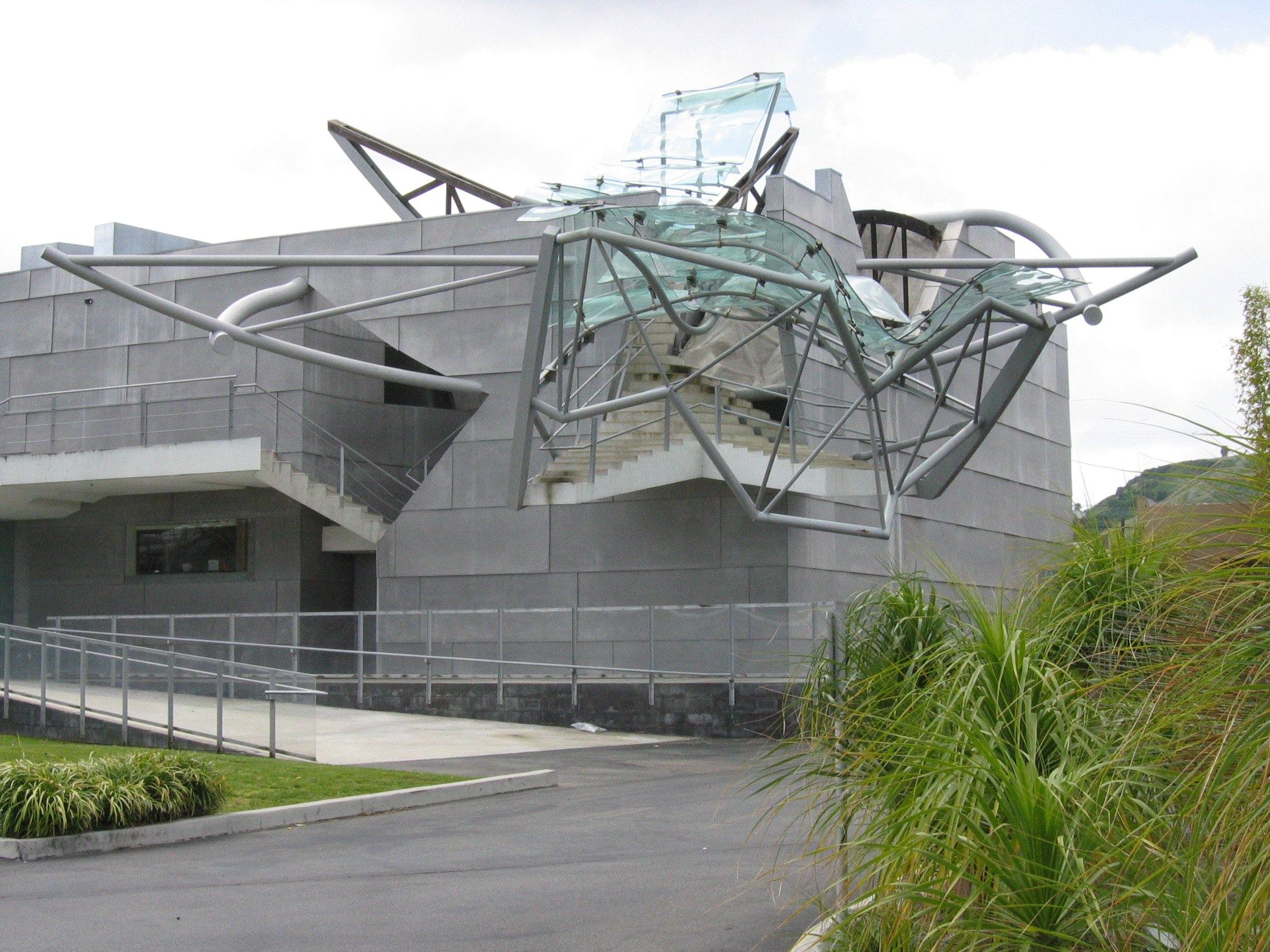 The Umbrella, Eric Owen Moss, Culver City, CA